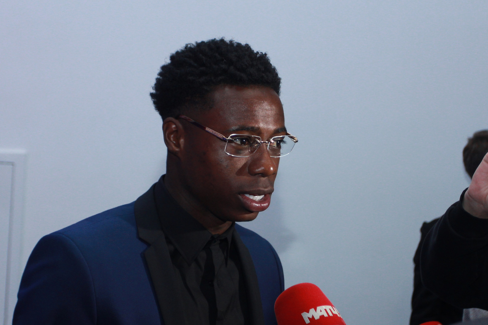 Quincy Promes